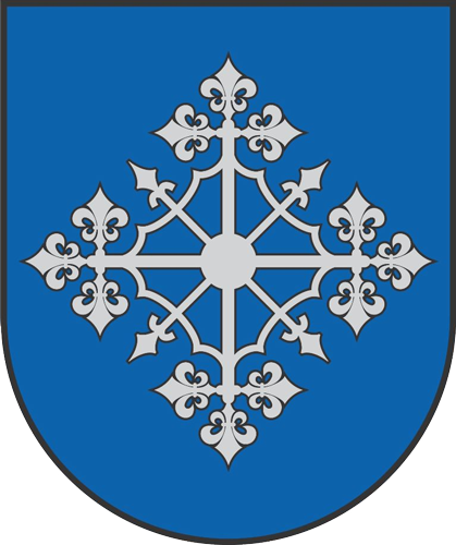 Coat of arms of Aglona Municipality, Latvia.